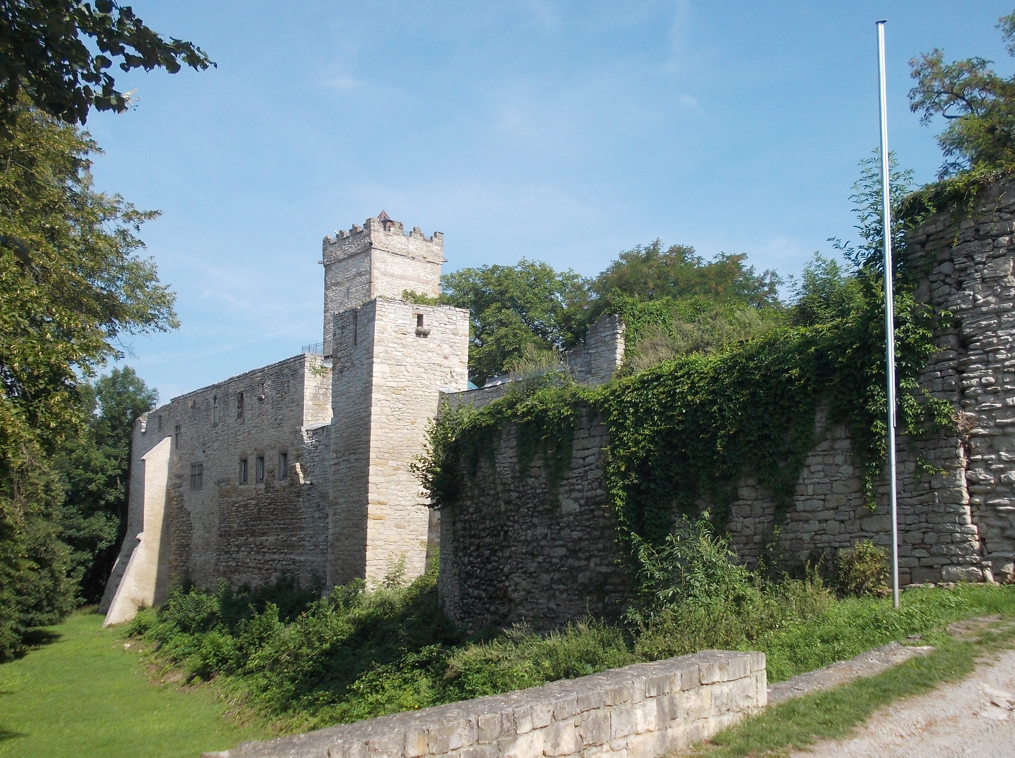 Eckartsburg castle in Eckartsberga (district: Burgenlandkreis, Saxony-Anhalt)